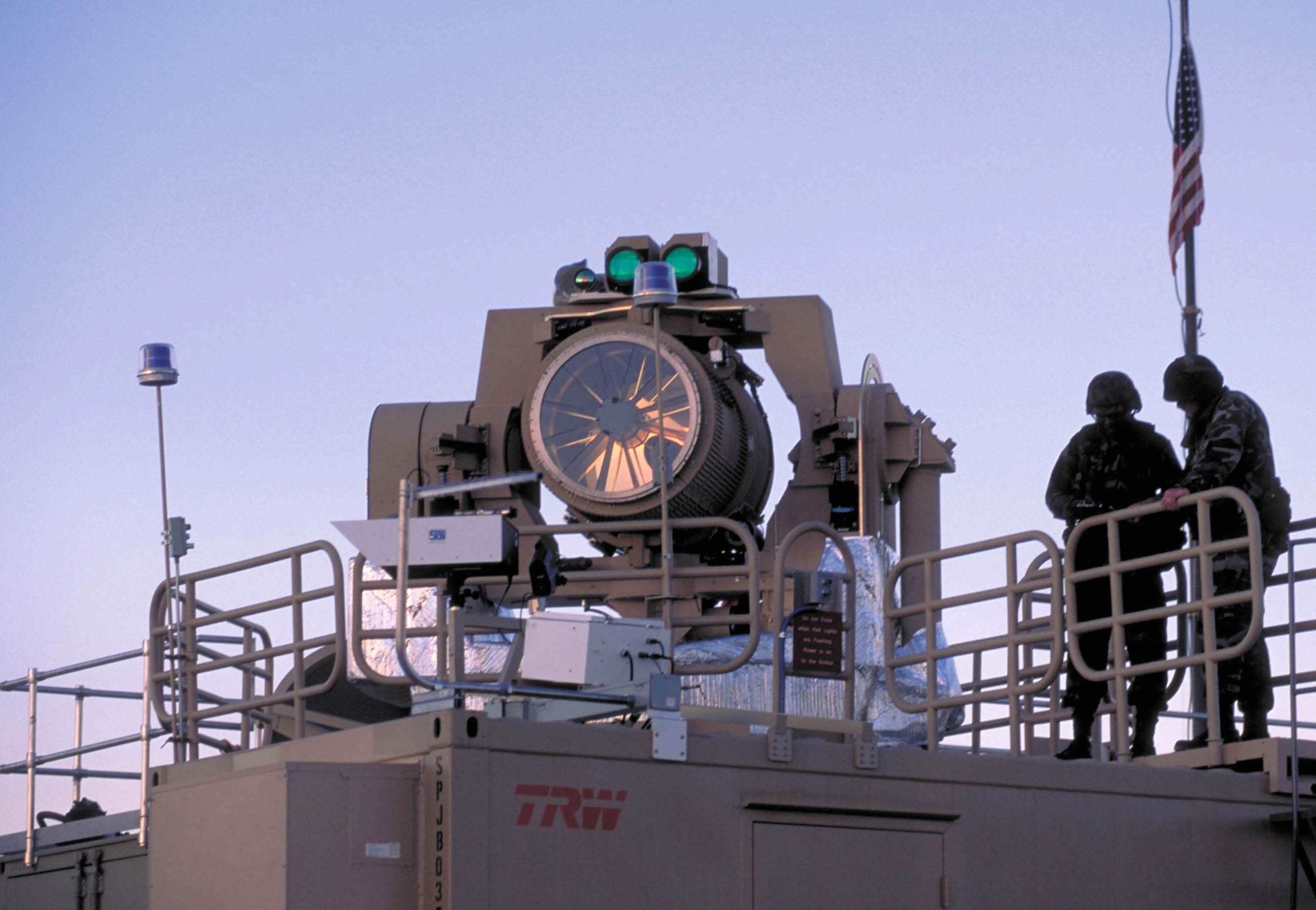 Tactical High Energy Laser / Advanced Concept Technology Demonstrator "..."